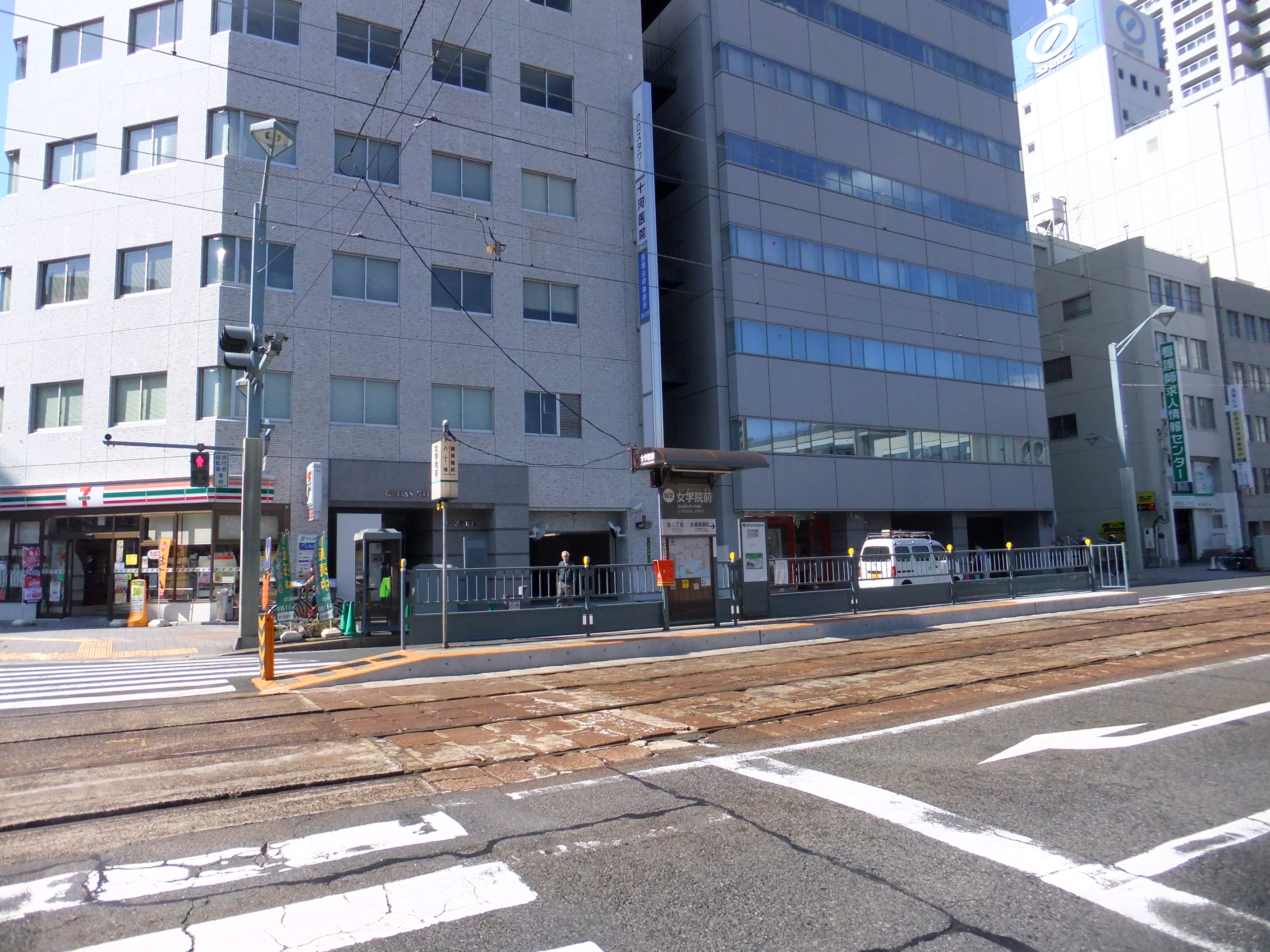 Hiroshima Electric Railway Jogakuinmae Station